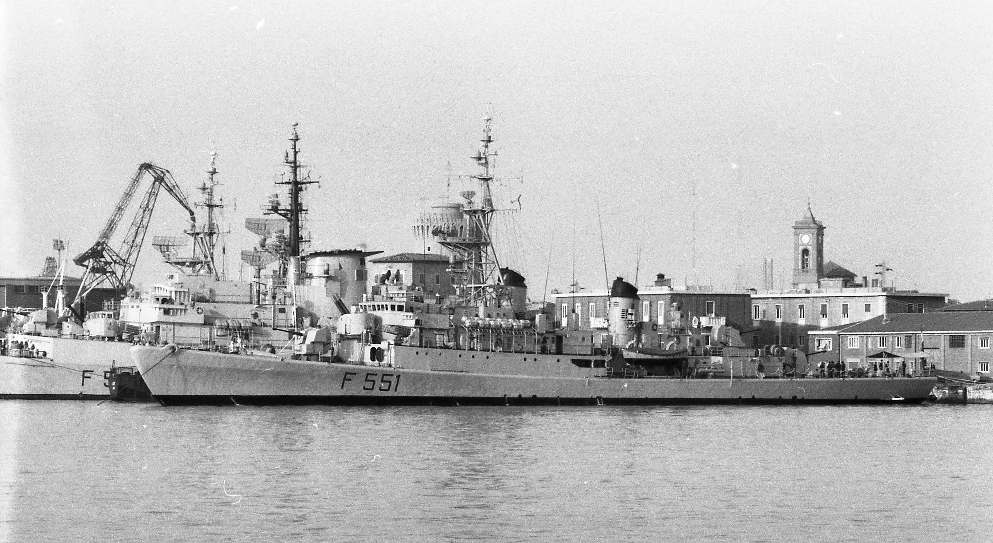 Italy, Marina Militare.The frigate Canopo (F 551), Centauro class, built by Taranto Shipyard, launched on February 20, 1955, completed and entered in service on May 4, 1958. The frigate was scrapped on September 30, 1982. Here is anchored in the Port of Livorno at “Andana degli Anelli” of “Porto Mediceo”.